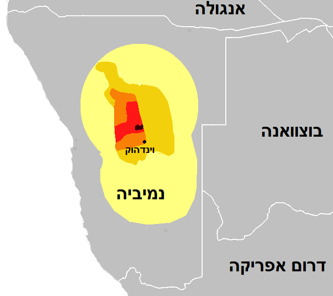 kudu rabies of Namibia